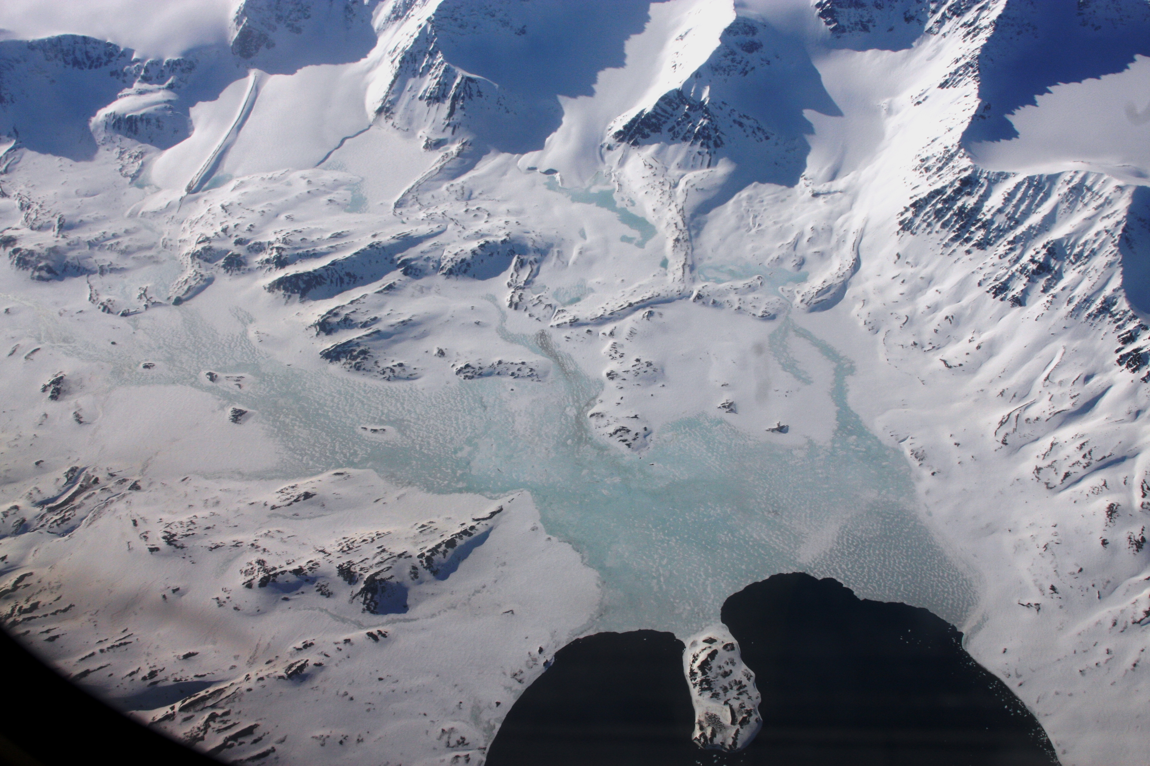 Recherchefjorden in Bellsund, Svalbard